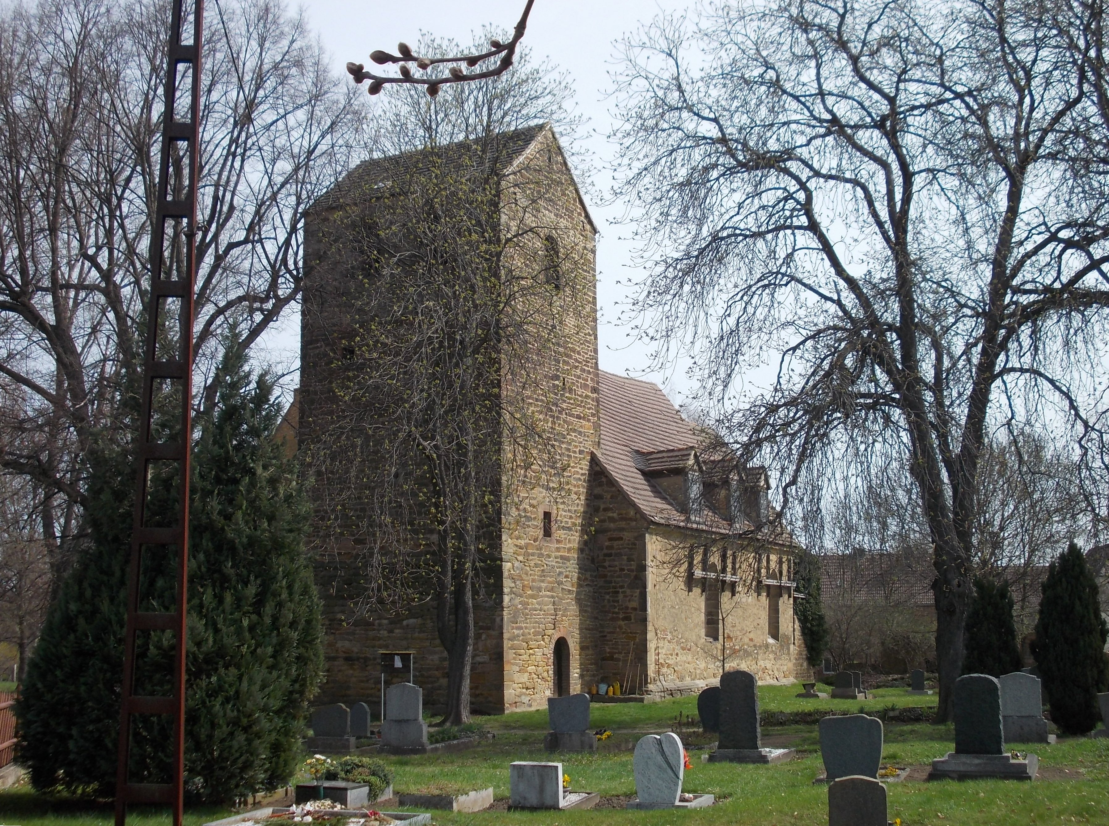 St. Anne's Church in Grossgräfendorf (Bad Lauchstädt, district of Saalekreis, Saxony-Anhalt)